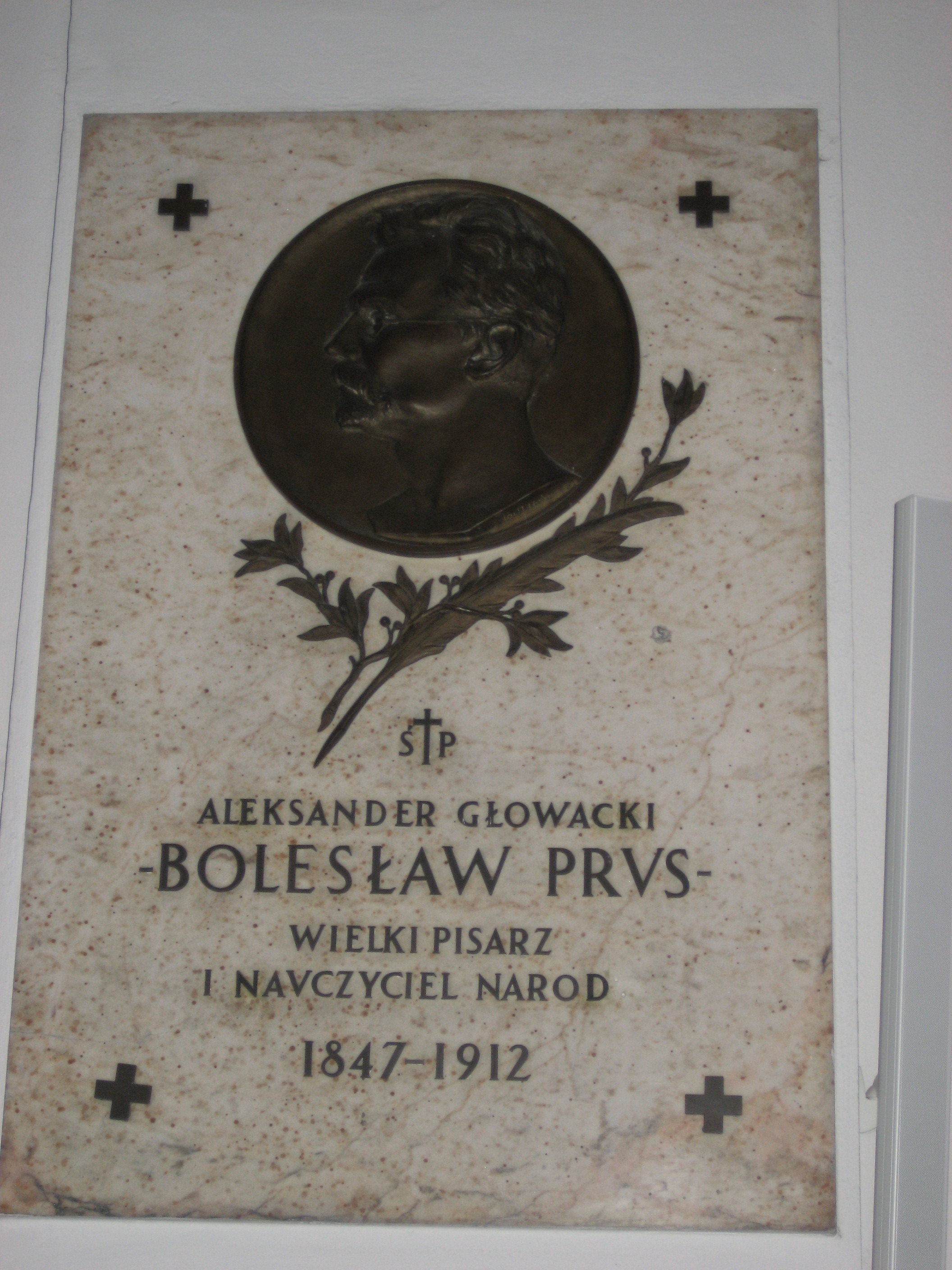 Plaque on a pillar of the Holy Cross Church in Warsaw, Poland, commemorating "Aleksander Głowacki, BOLESŁAW PRUS, great writer and teacher of the nation, 1847-1912."